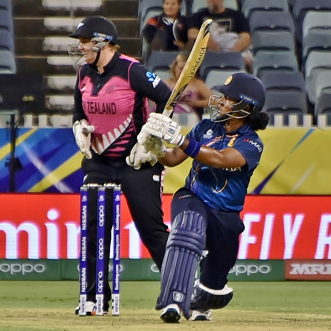 Chamari Atapattu hits a six while batting for Sri Lanka against New Zealand during their 2020 ICC Women's T20 World Cup match at the WACA Ground in Perth, Australia. The wicket-keeper is Rachel Priest